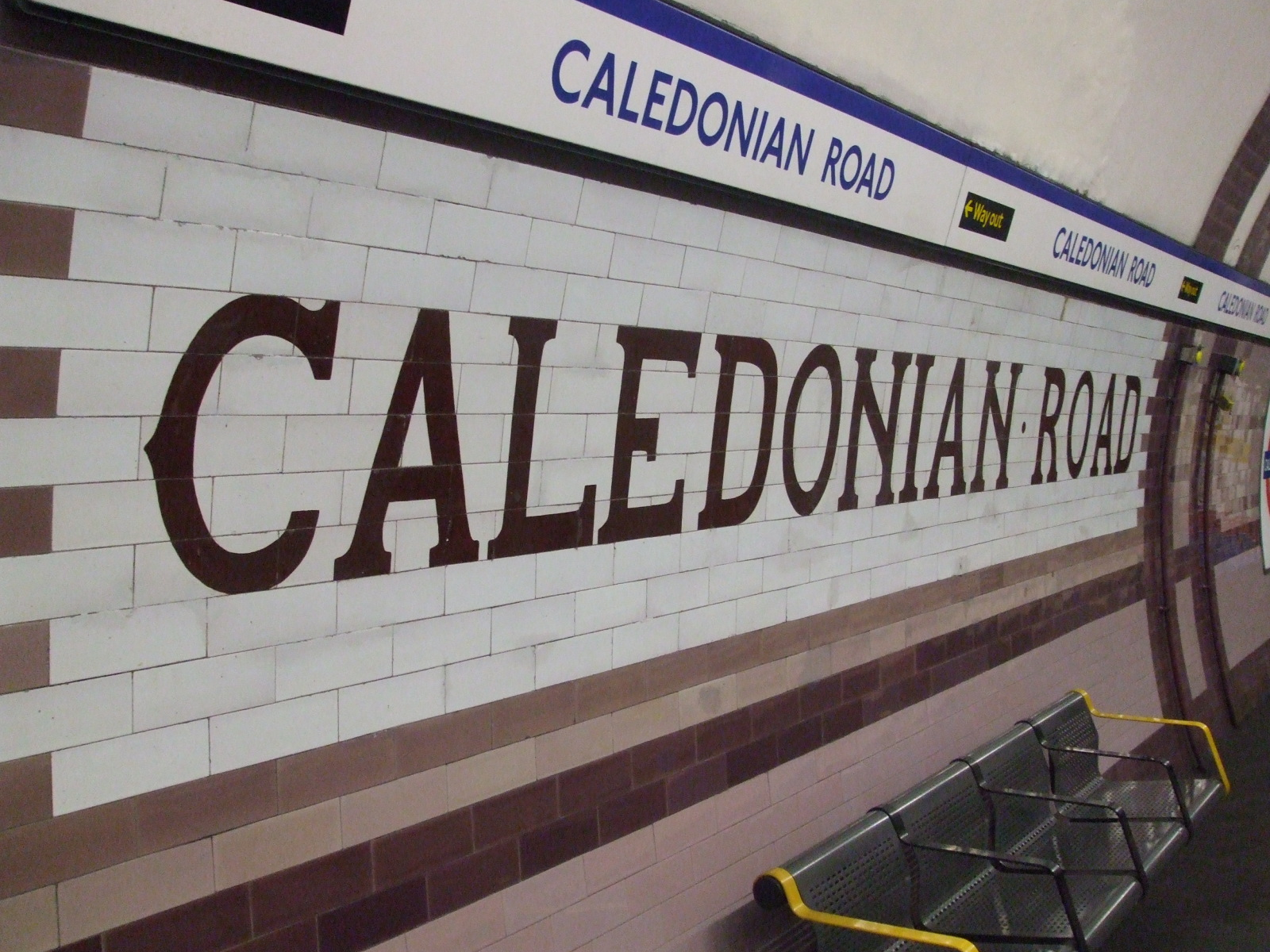 Tiling on Caledonian Road tube station southbound platform